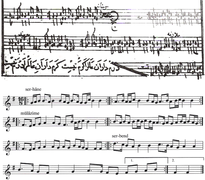 Anonymus: [nevâ] Ceng-i harb-î. Mehter-music, recorded by Ali Ufkî (17th century). Transcription by User:Dr. 9.41